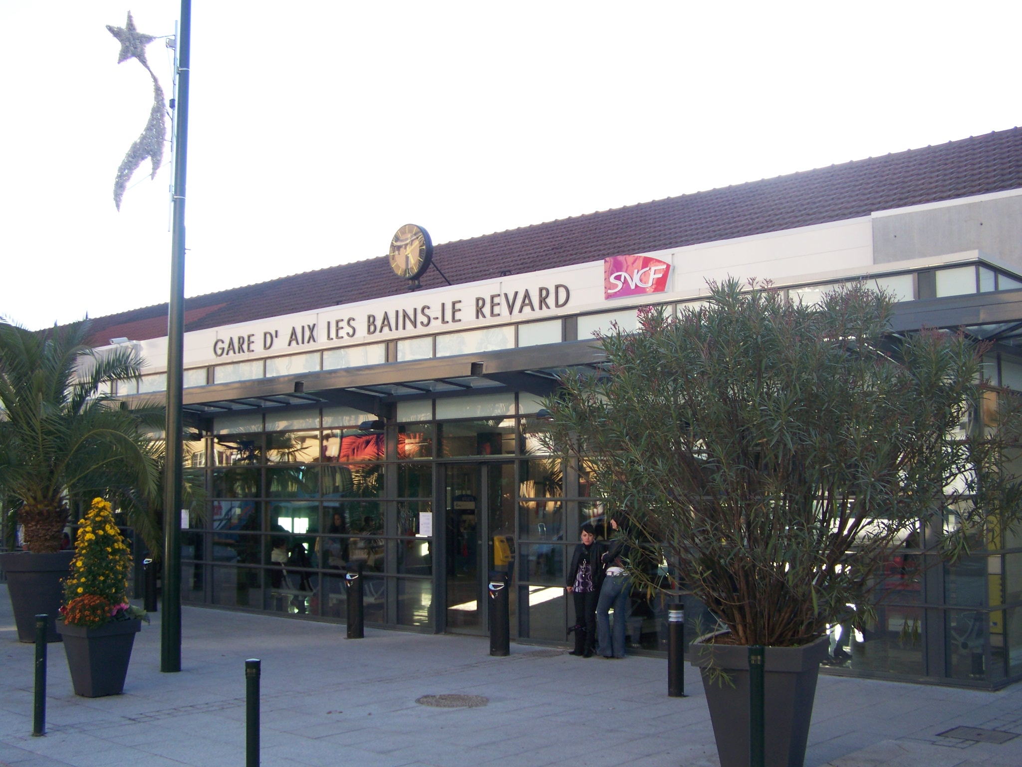 Front of the French station of Aix-les-Bains in Savoie.